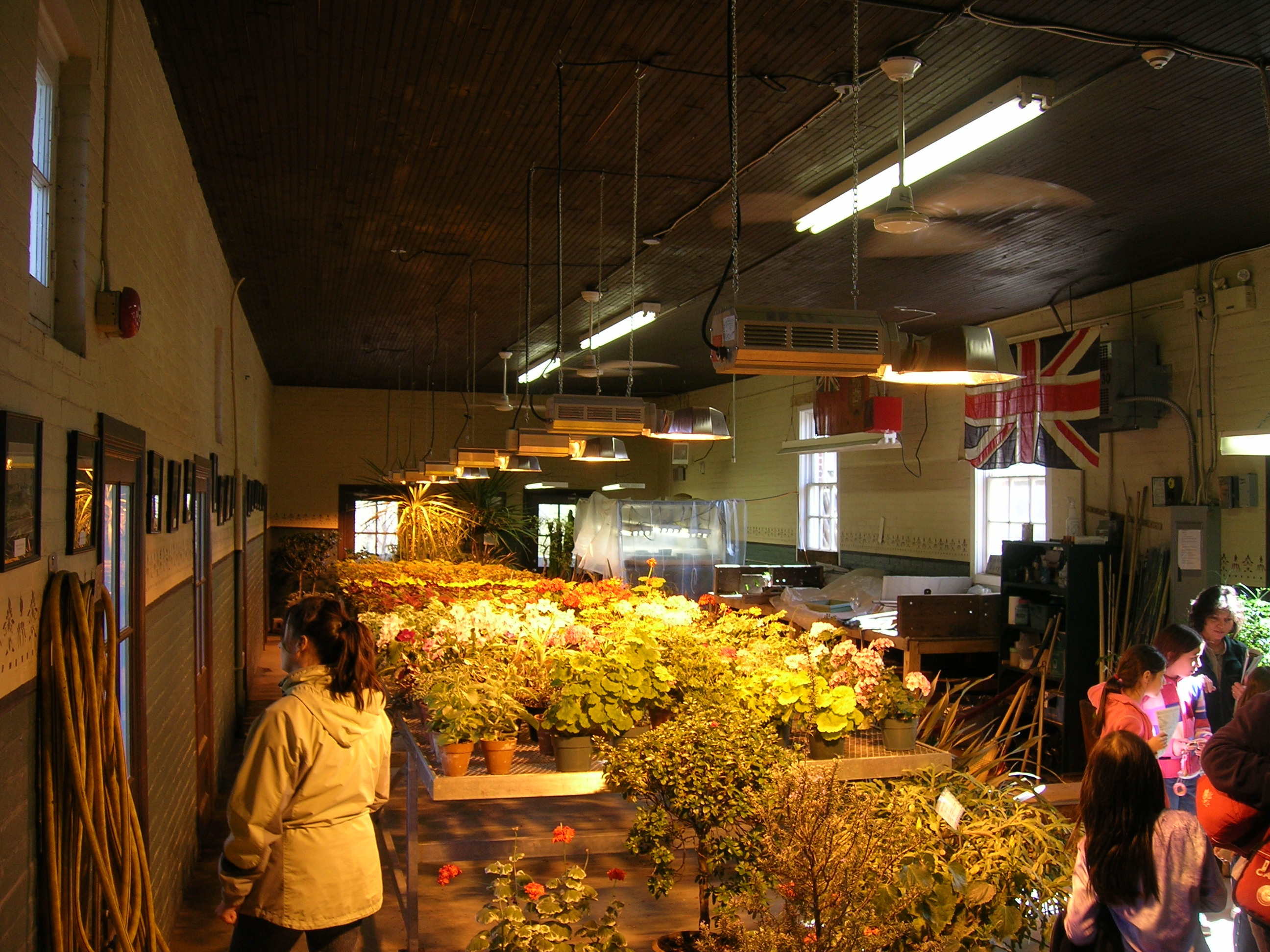 Visitors examine the potting shed located on the grounds of Casa Loma.